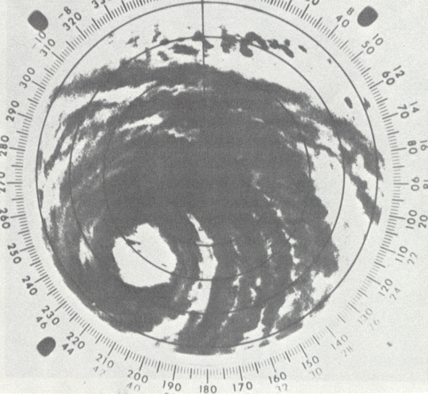 Radar image of Hurricane Betsy near Miami, Florida as viewed from a WSR-57 radar site on September 8, 1965.